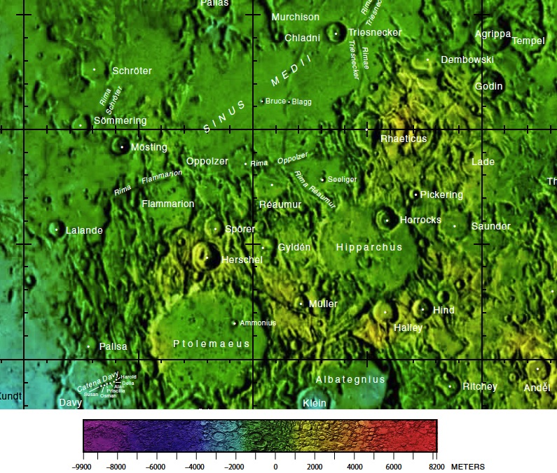 Part of the USGS near side lunar chart